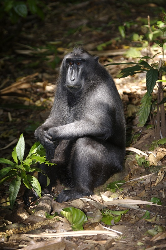 Crested Black Macaque, Sulawesi Crested Macaque, or the Black Ape Dominant male in group Settling down after deciding that there is no threat present July 9, 2006 Habitat: Tangkoko National Park _Q0S0758